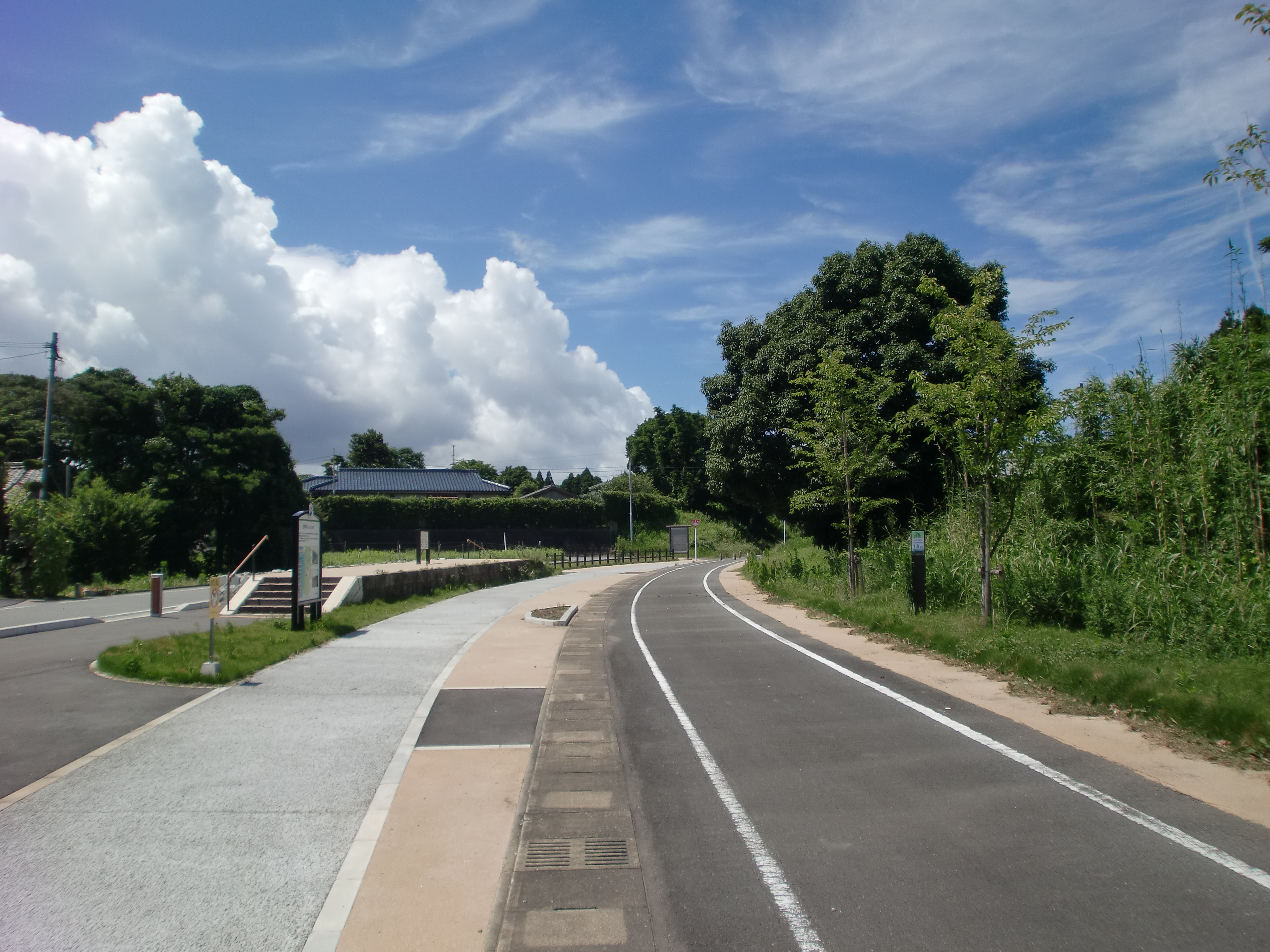 Ruin of Yoshitoshi Station on the abolished Kagoshima Kotsu Makurazaki Line (now converted to Fukiagehama Cycling Road), viewing towards Kaseda